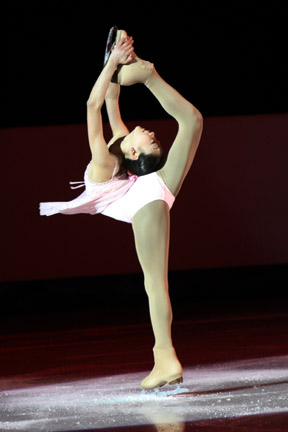 Mirai Nagasu performs a Biellmann spin variation with her hands on the boot of her skate instead of the blade during her "A Dream Is A Wish Your Heart Makes" exhibition at the 2008 World Junior Figure Skating Championships. She won the bronze medal at that competition.